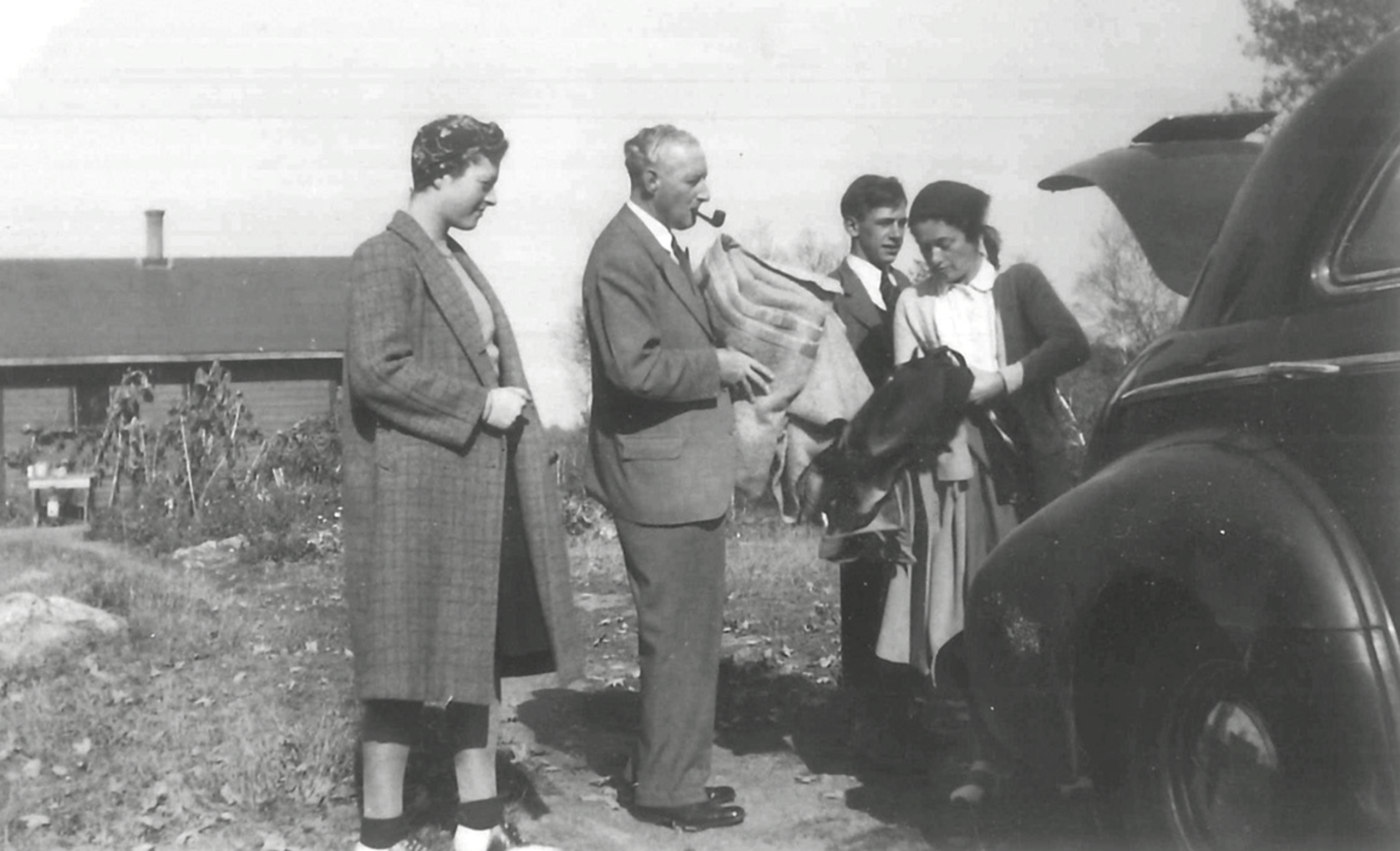 Ruth Mendel, Prof. Dr. Bruno Mendel (1887–1959), Josef Eisinger and Hertha Mendel